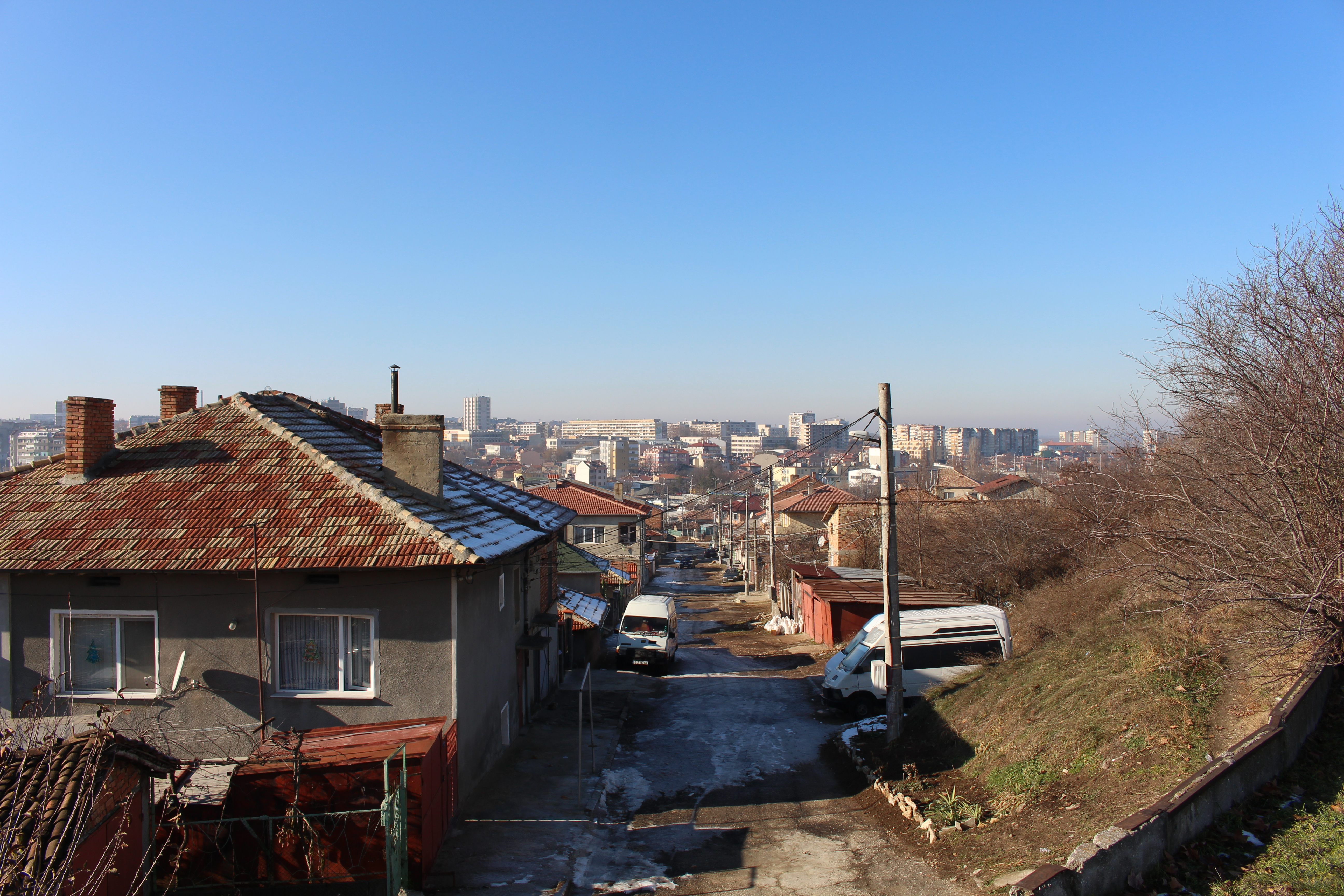 Dobrich, Bulgaria, view from Hristo Botev area toward city center, taken December 2014